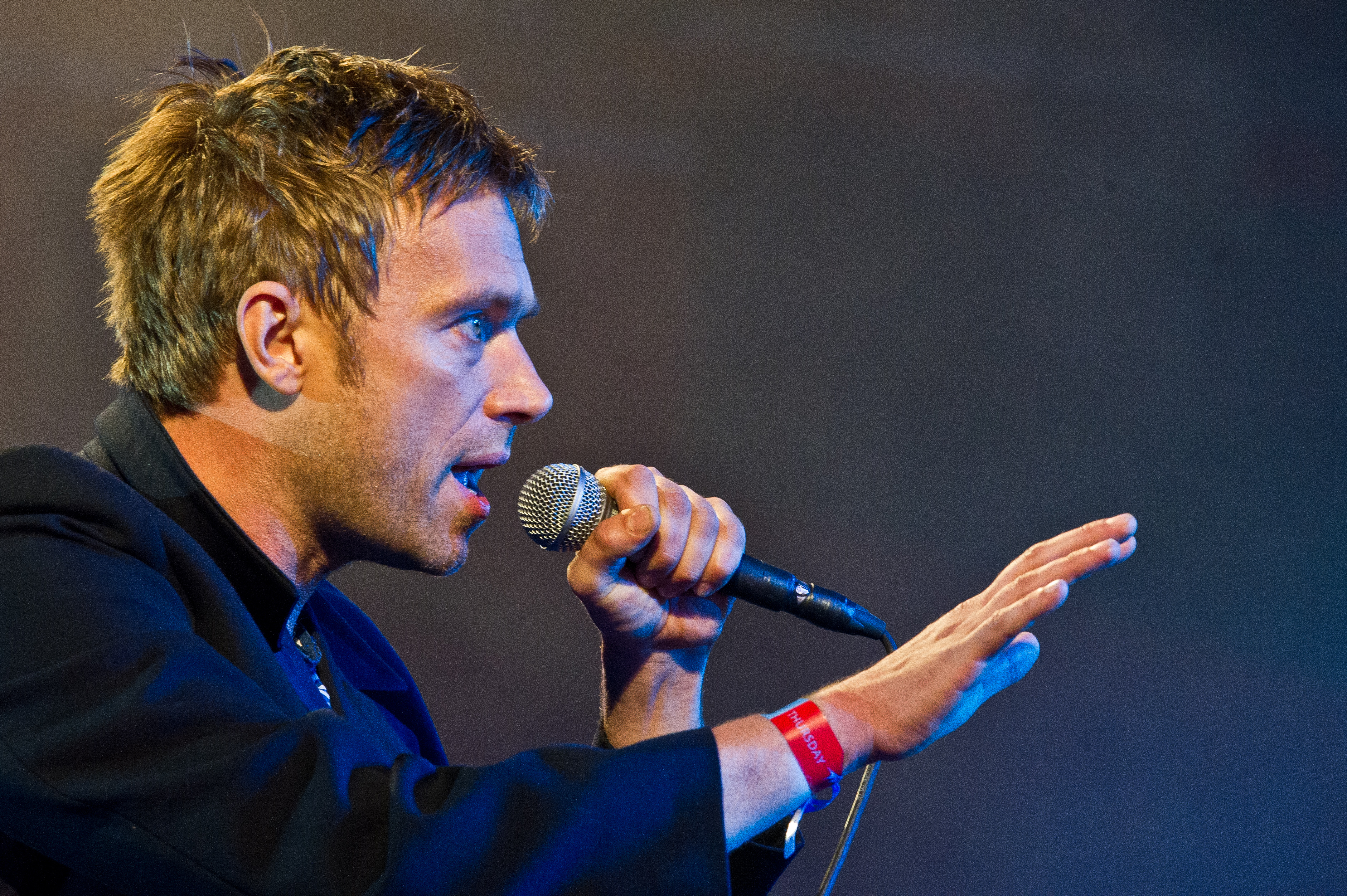 Damon Albarn - Gorillaz - Roskilde Festival 2010